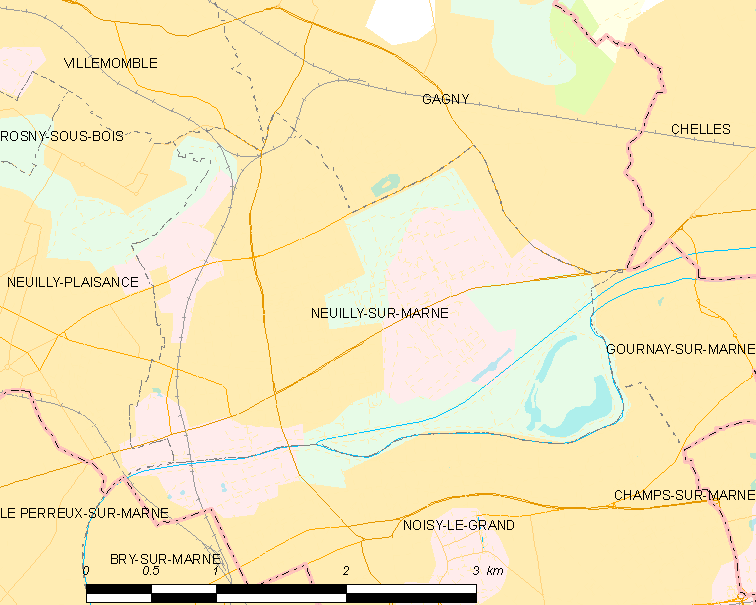 Map of French municipality Neuilly-sur-Marne